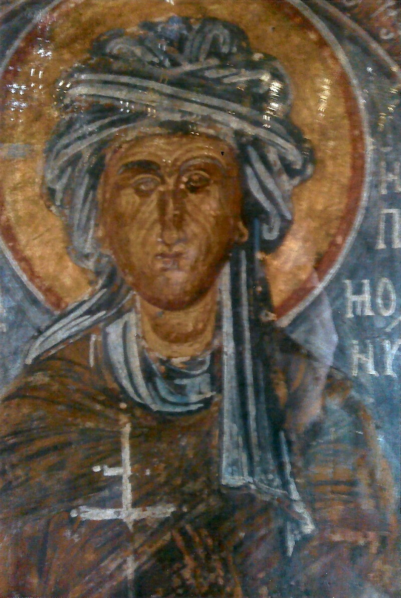 Byzantine Icon of Saint Hipomoni (Saint Patience) found in the cave of Saint Patapios in Loutraki - Greece, created from unknown Holy Icon maker and aged centuries ago, perhaps on 15th century A.C. (photo from the monastery of saint Patapios)